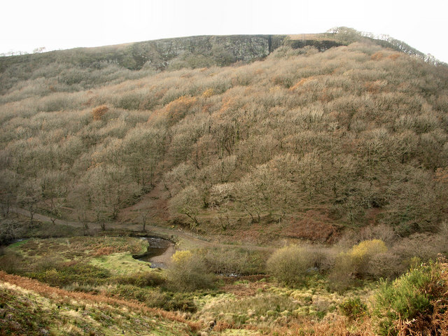 Garth Hill viewed from the east The east-facing slope of Garth Hill viewed from across Cwm Du. Towards the bottom of the picture can be seen Nant Cwm-du and the track/public footpath which runs roughly parallel to it just to its west in the lower half of the valley.